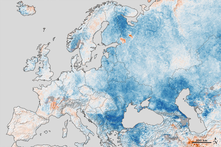 A map of the land surface temperature anomaly of Europe between January 25 and February 1, 2012 from NASA's Moderate-Resolution Imaging Spectroradiometer (MODIS).